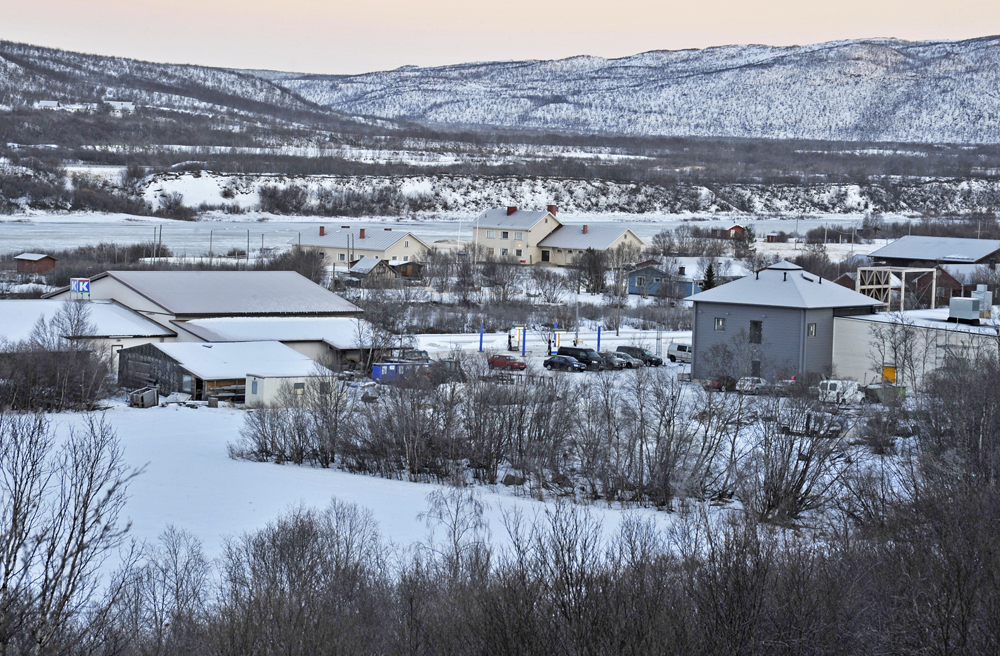 Nuorgam village in Utsjoki, Finland, November 2012.